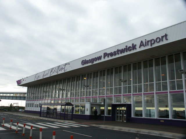 Prestwick International Airport [PIK] The marketing guys say naming the airport 'Pure Dead Brilliant' (A Glasgow Colloquial expression) makes them seem 'hip'. Everyone else thinks they're stupid! Although he didn't set foot inside this terminal building, this was the closest Elvis Presley got to placing his foot on Scottish soil. He never made it to England....